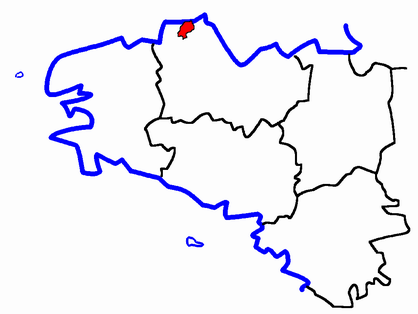 Description: Map for localisazion of cantons of Bretagne region in France Source: made by Hervé Tigier in april 2005 from another large map (published in 1990)